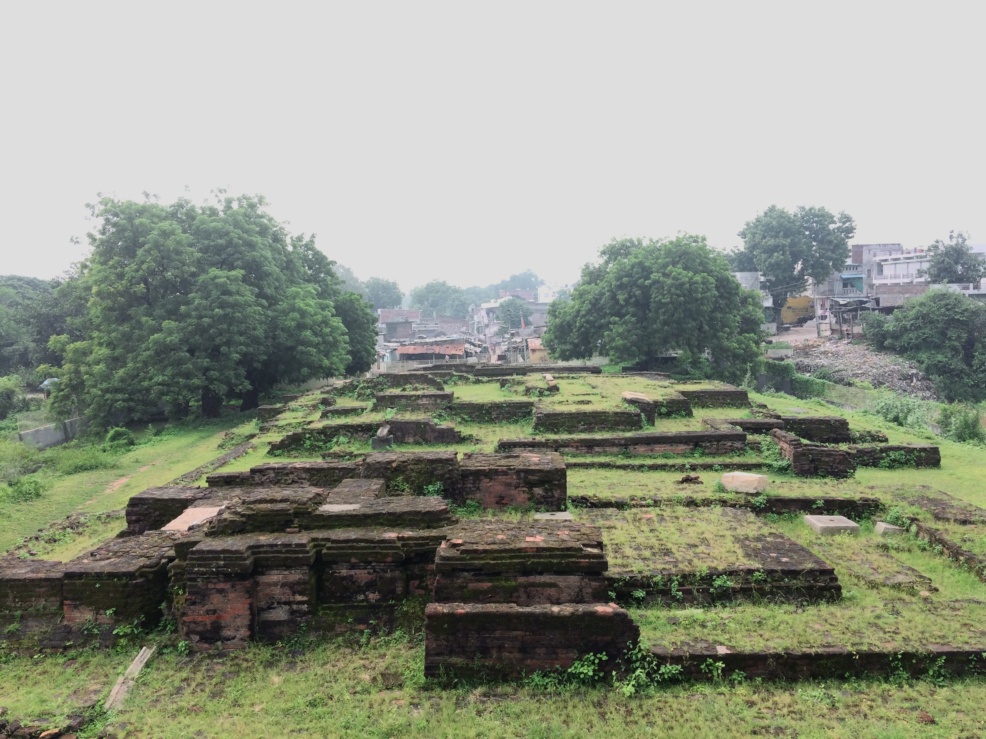 this picture taken from south direction to cover full view of site.